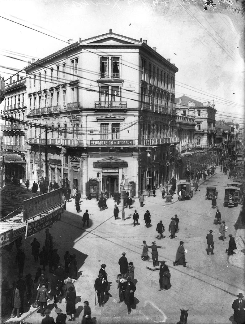 The corner Aiolou and Stadiou Street in Athens, 1927